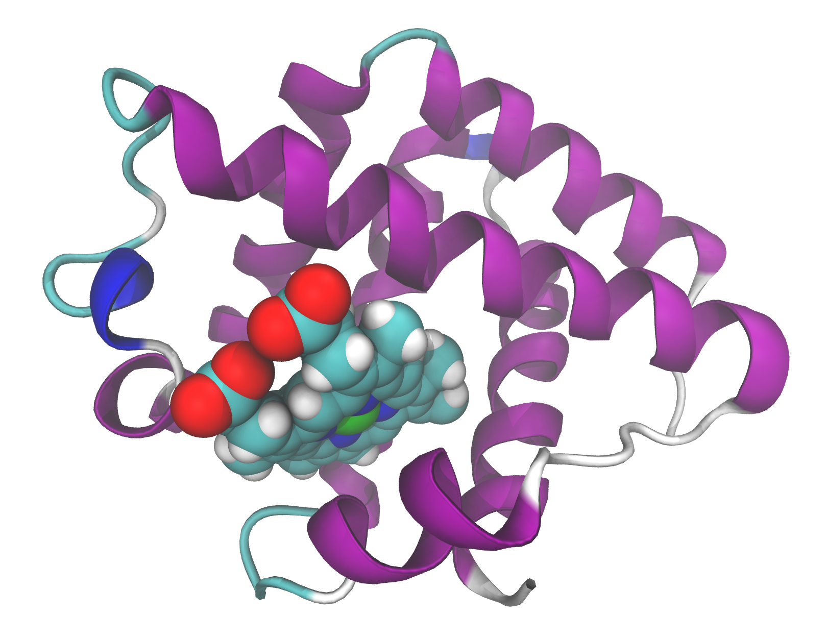 Ribbon model of soybean leghemoglobin a, with heme as balls, after PDB 1FSL. Ref.: Ellis PJ, Appleby CA, Guss JM, Hunter WN, Ollis DL, Freeman HC (May 1997). "Structure of ferric soybean leghemoglobin a nicotinate at 2.3 A resolution". Acta Crystallogr. D Biol. Crystallogr. 53 (Pt 3): 302–10. PMID 15299933. This 3D molecular image was created with VMD